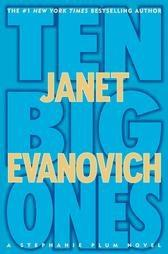 The front cover of the book Ten Big Ones by Janet Evanovich